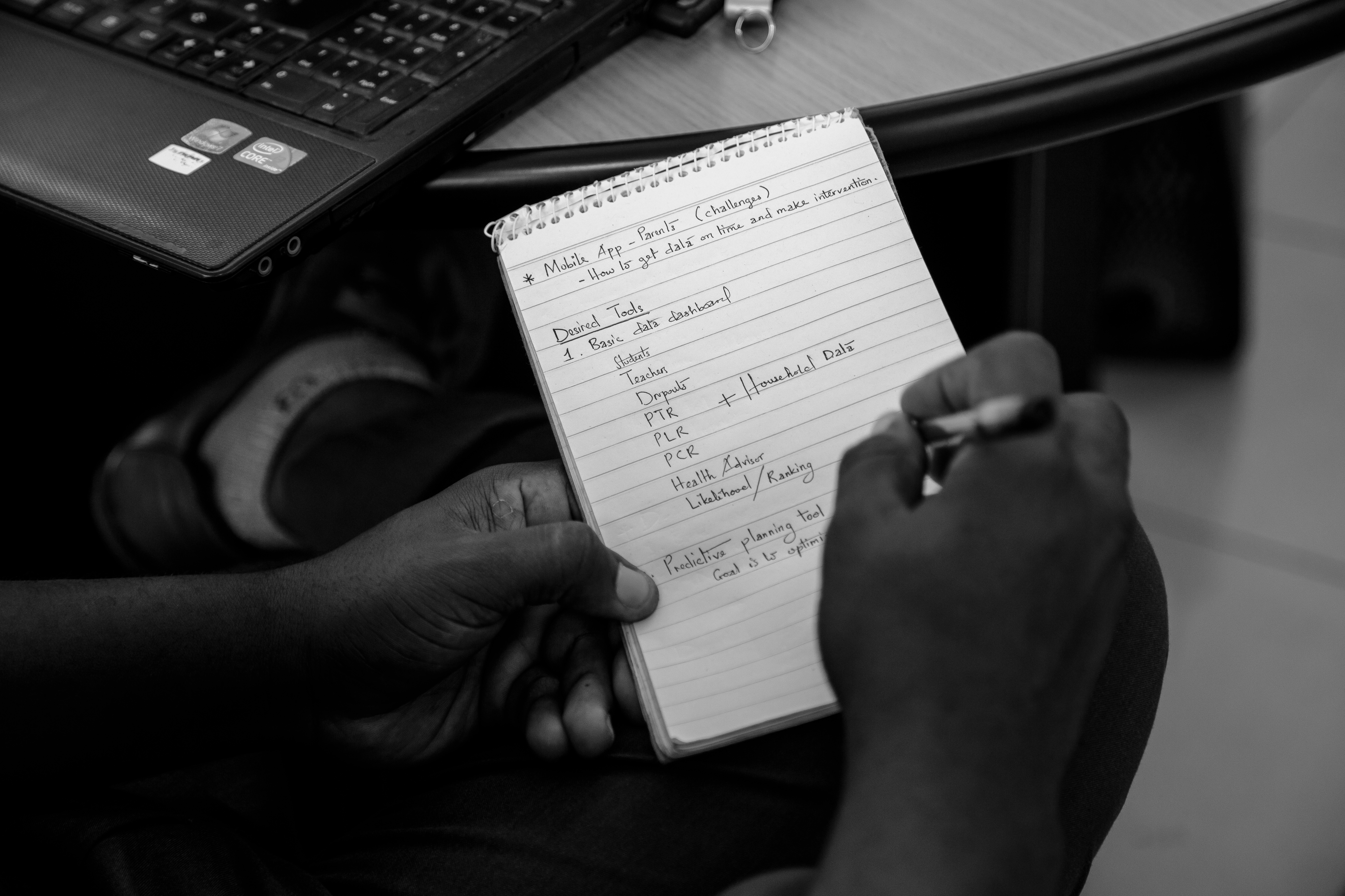 This is an image of "African people at work" from Tanzania